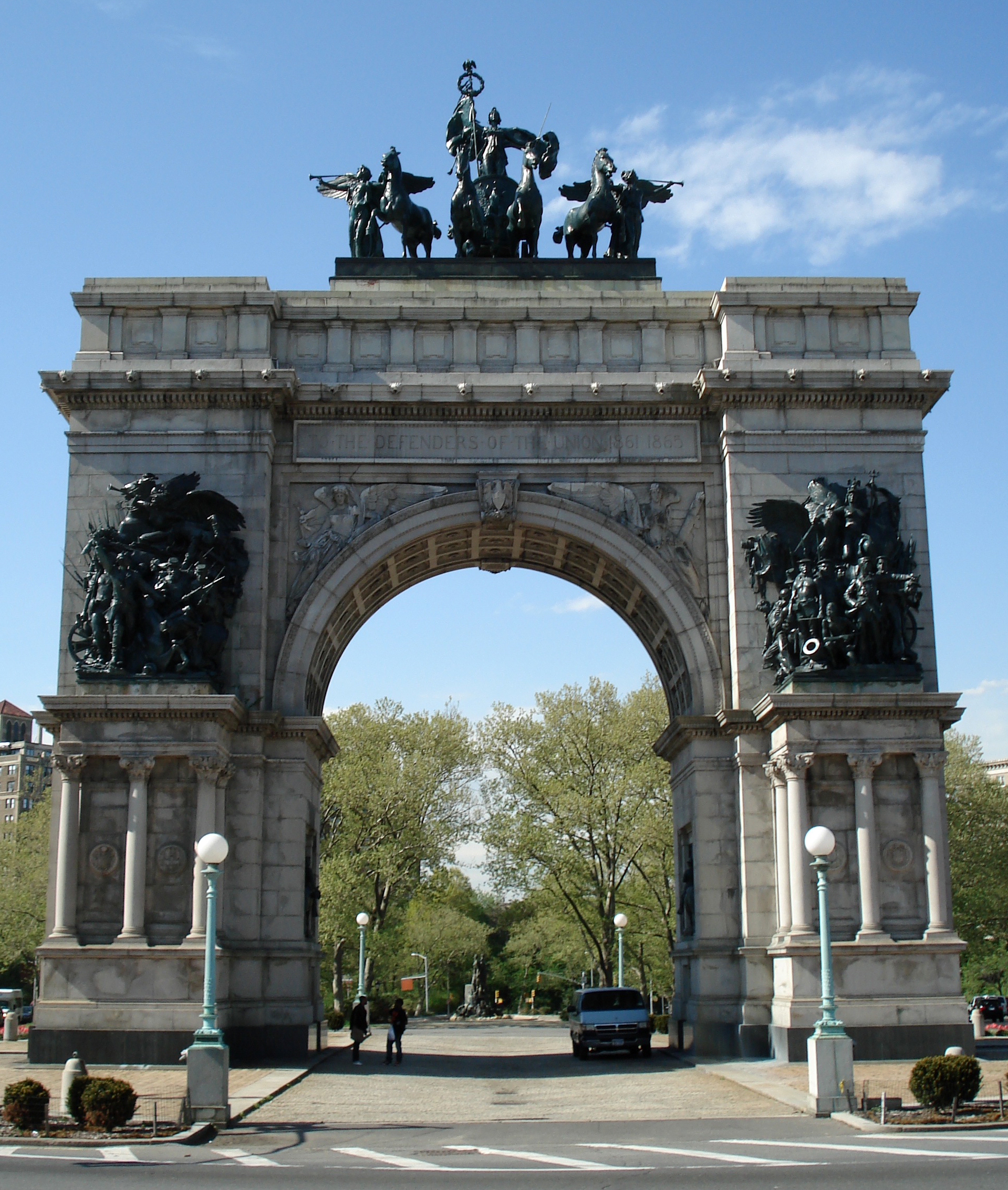 The Soldiers' and Sailors' Memorial Arch, at Grand Army Plaza, Brooklyn, New York City. Designed by John H. Duncan, 1889-1892, with statuary by Frederick MacMonnies, 1894-1901. Copyright 2007 Jeffrey O. Gustafson, released to Wikimedia Commons under the GFDL and CC-BY-SA-2.0.